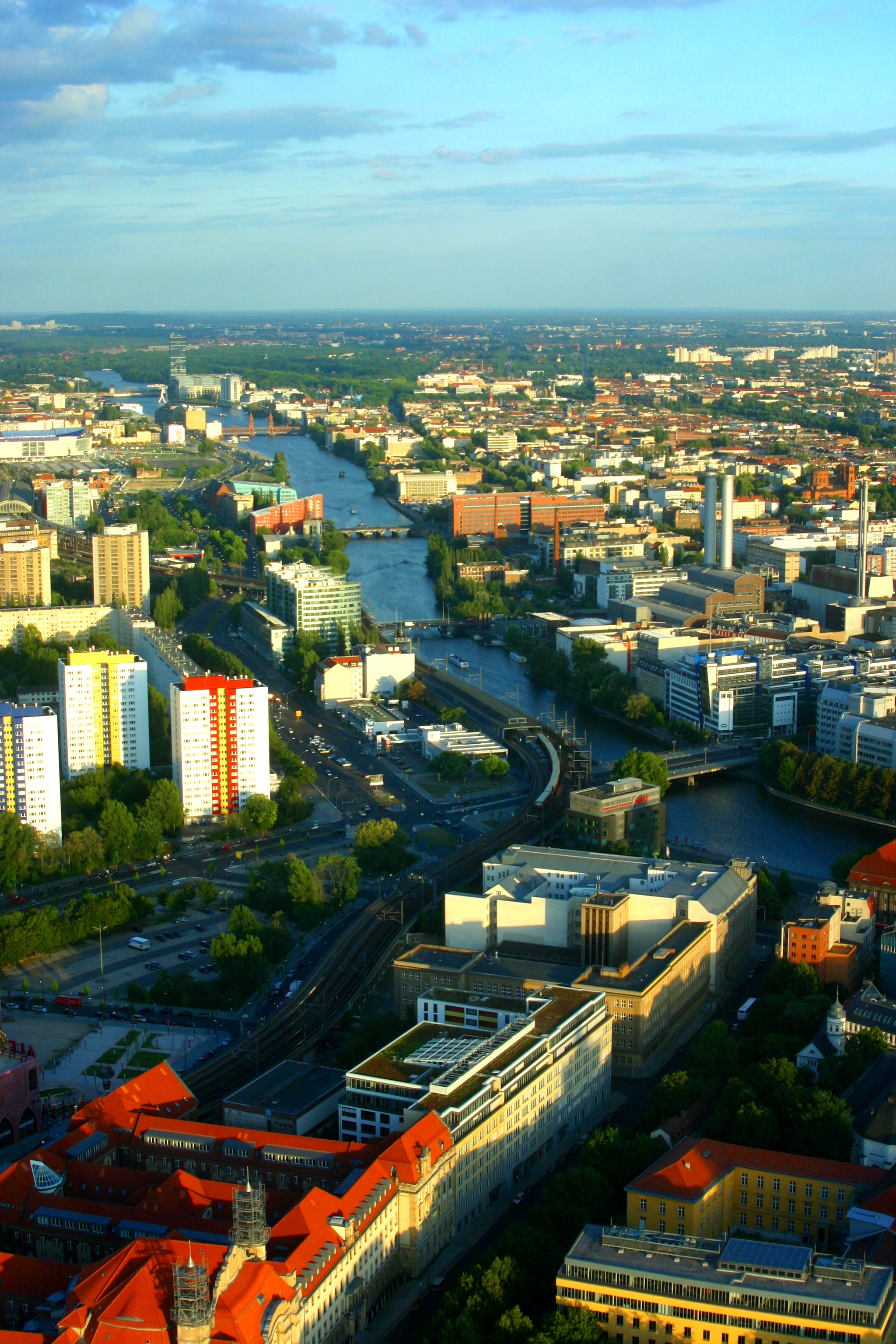 Aerial-view-photo (taken from the Berliner Fernsehturm) of the Spree (River) in Berlin